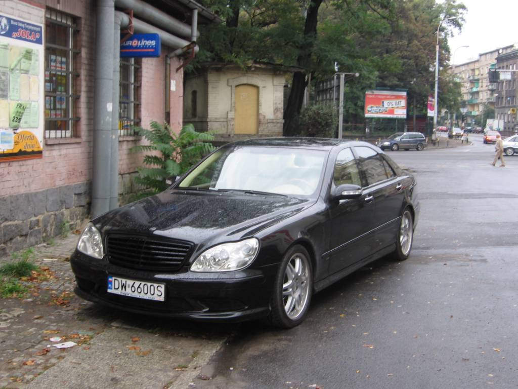 W220 in Wroclaw, Poland